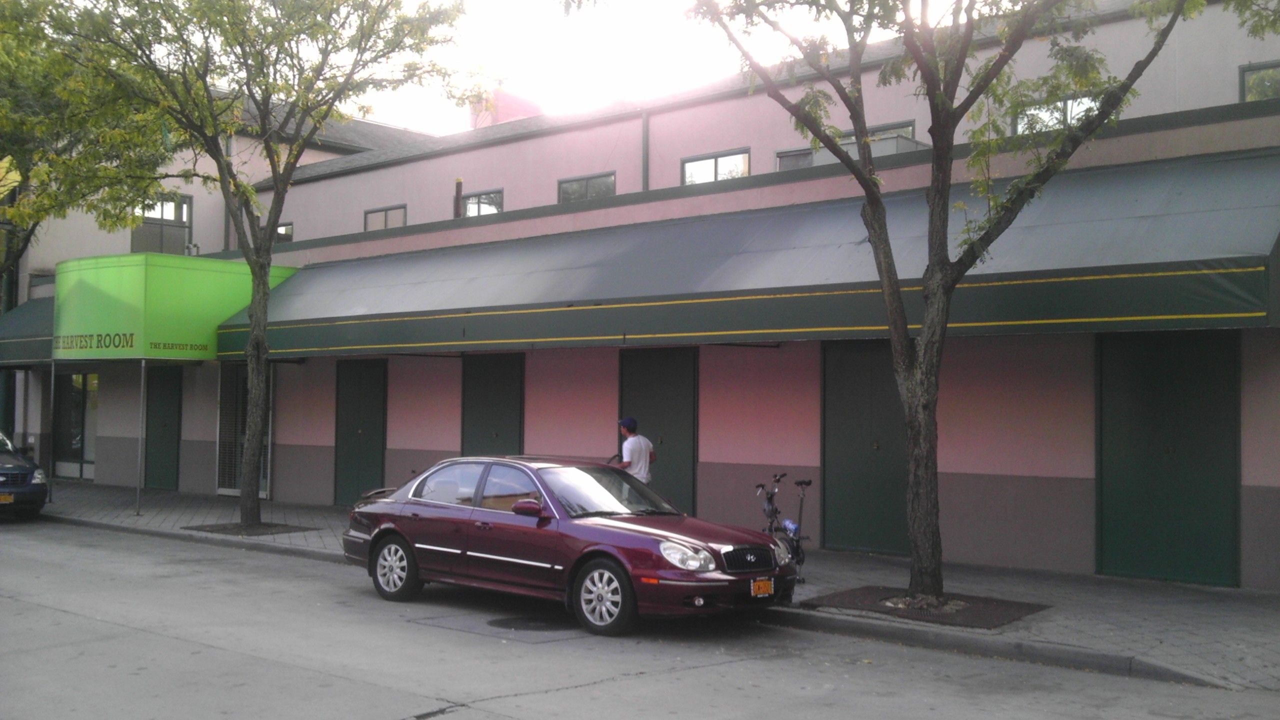 La Casina